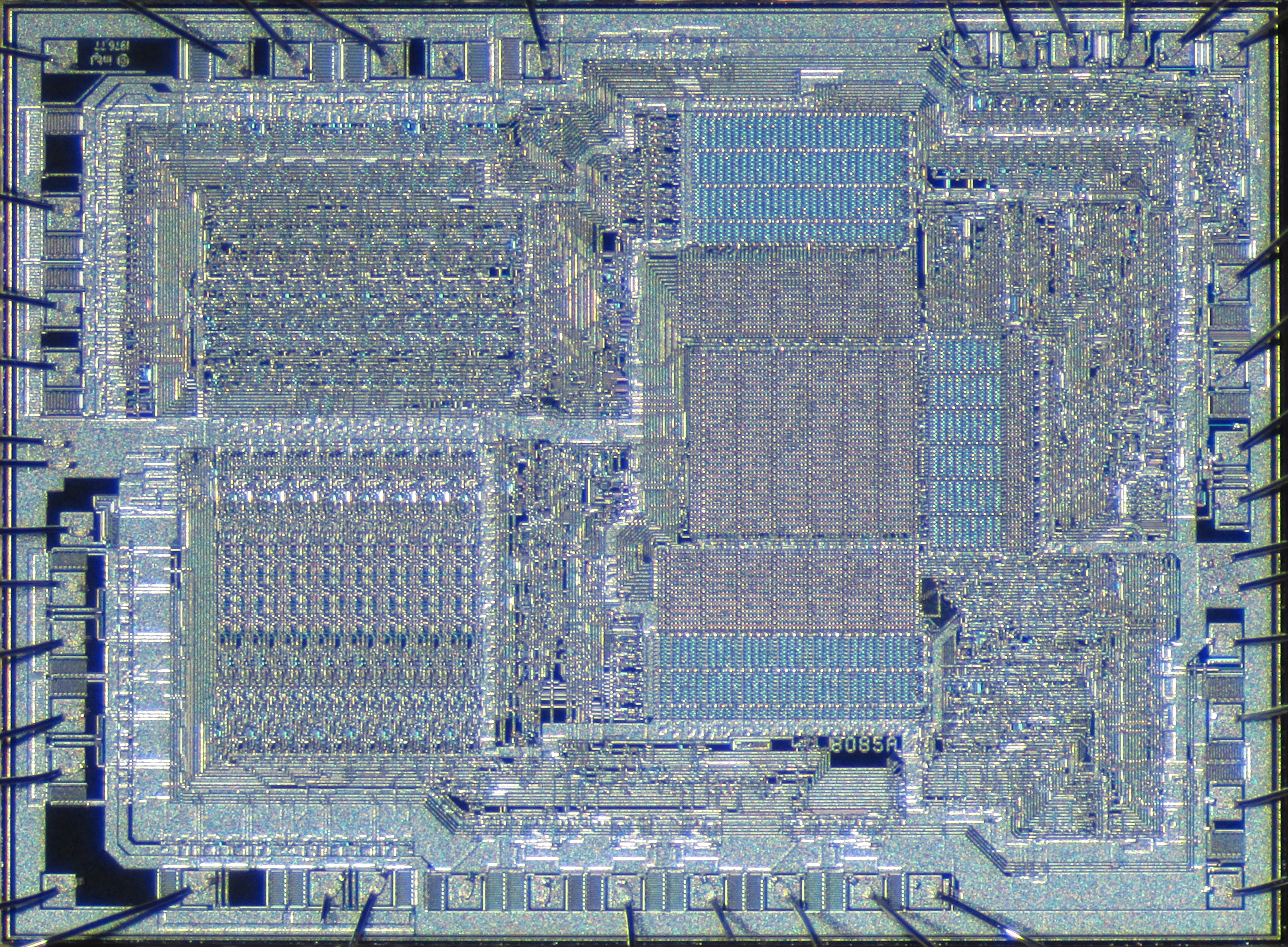 Die shot of Intel 8085A microprocessor (D8085A).